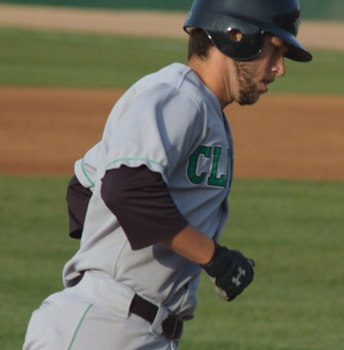 Chad Tracy of the Clinton LumberKings heads home on his home run trot during a 2007 game at Cooley Law School Stadium in Lansing, Michigan